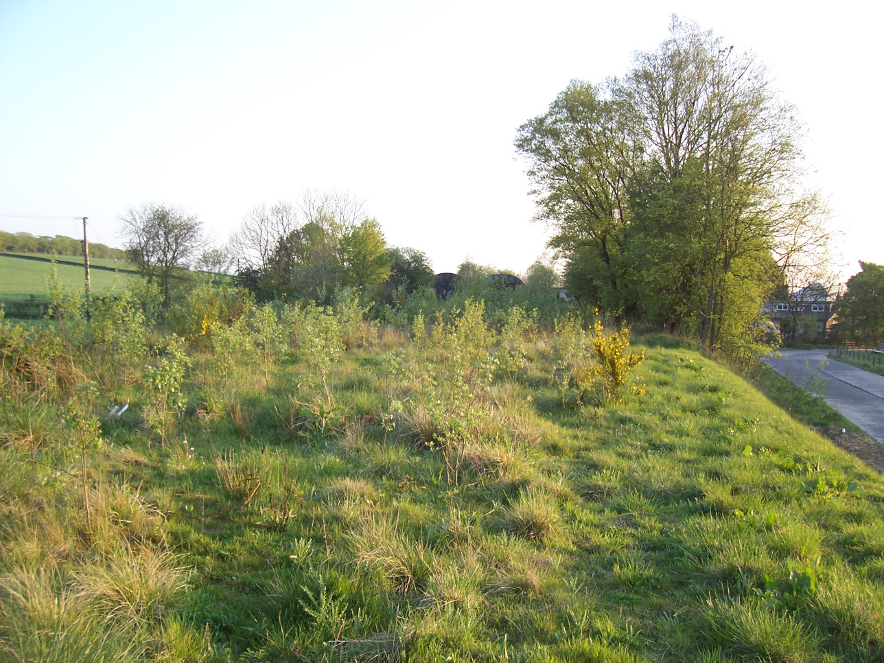 The site of Lugton High railway station in Lugton, East Ayrshire, Scotland. The embankment of the former Lanarkshire and Ayrshire Railway is clearly visible. Photo taken by Dreamer84 in May 2007.